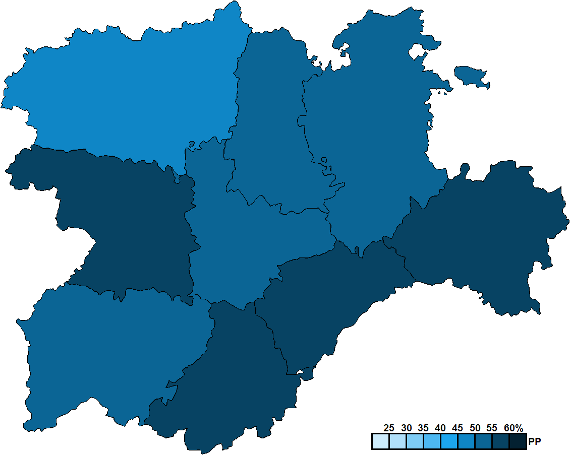 Provincial results for the 1995 Castilian-Leonese regional election.